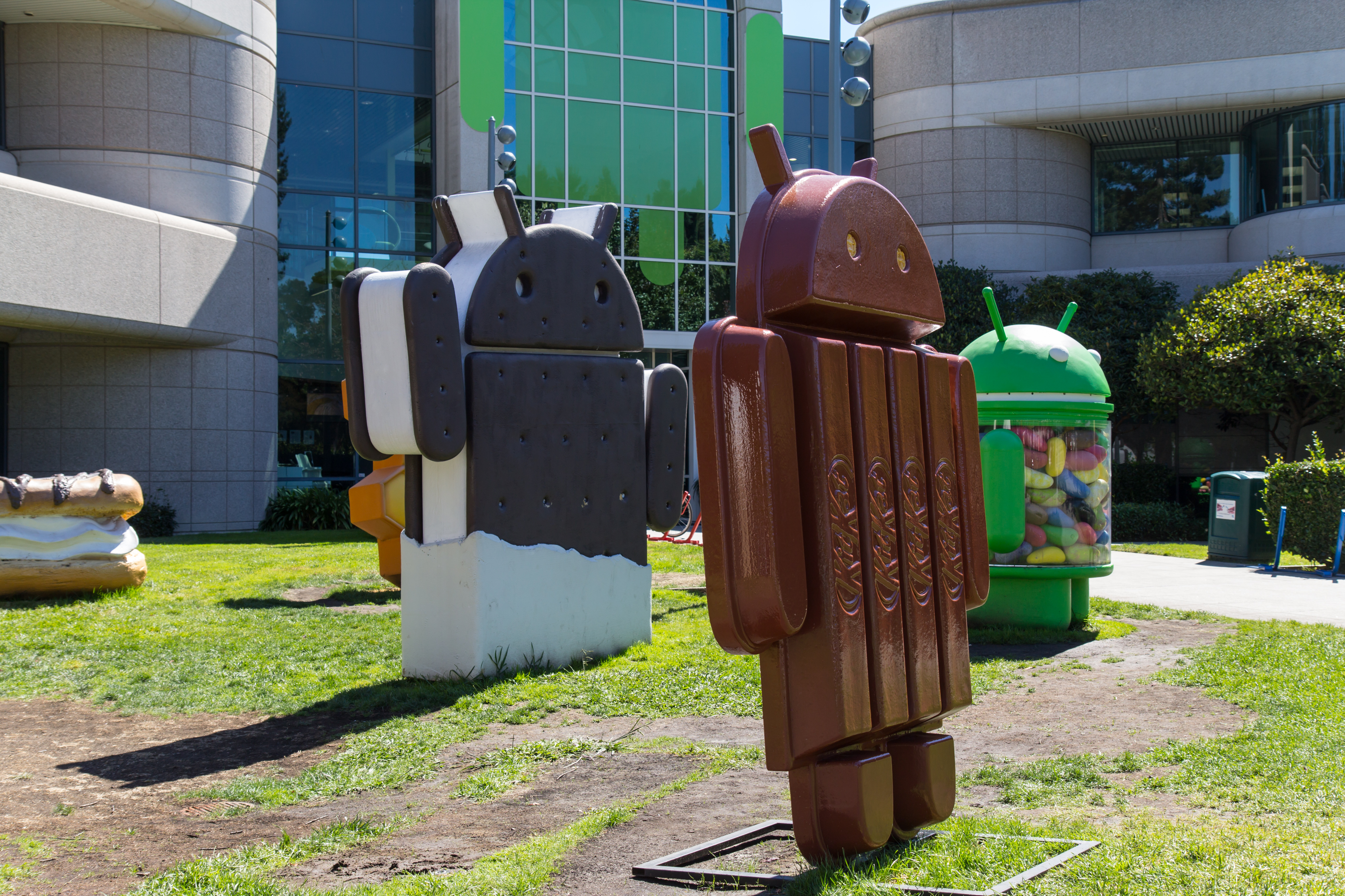 Android 4.x Lawn Statues